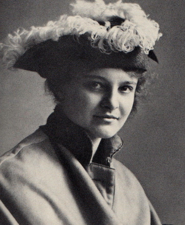 Dorothy Shakespear Pound, the British wife of Ezra Pound, photographed between 1910 and 1920.